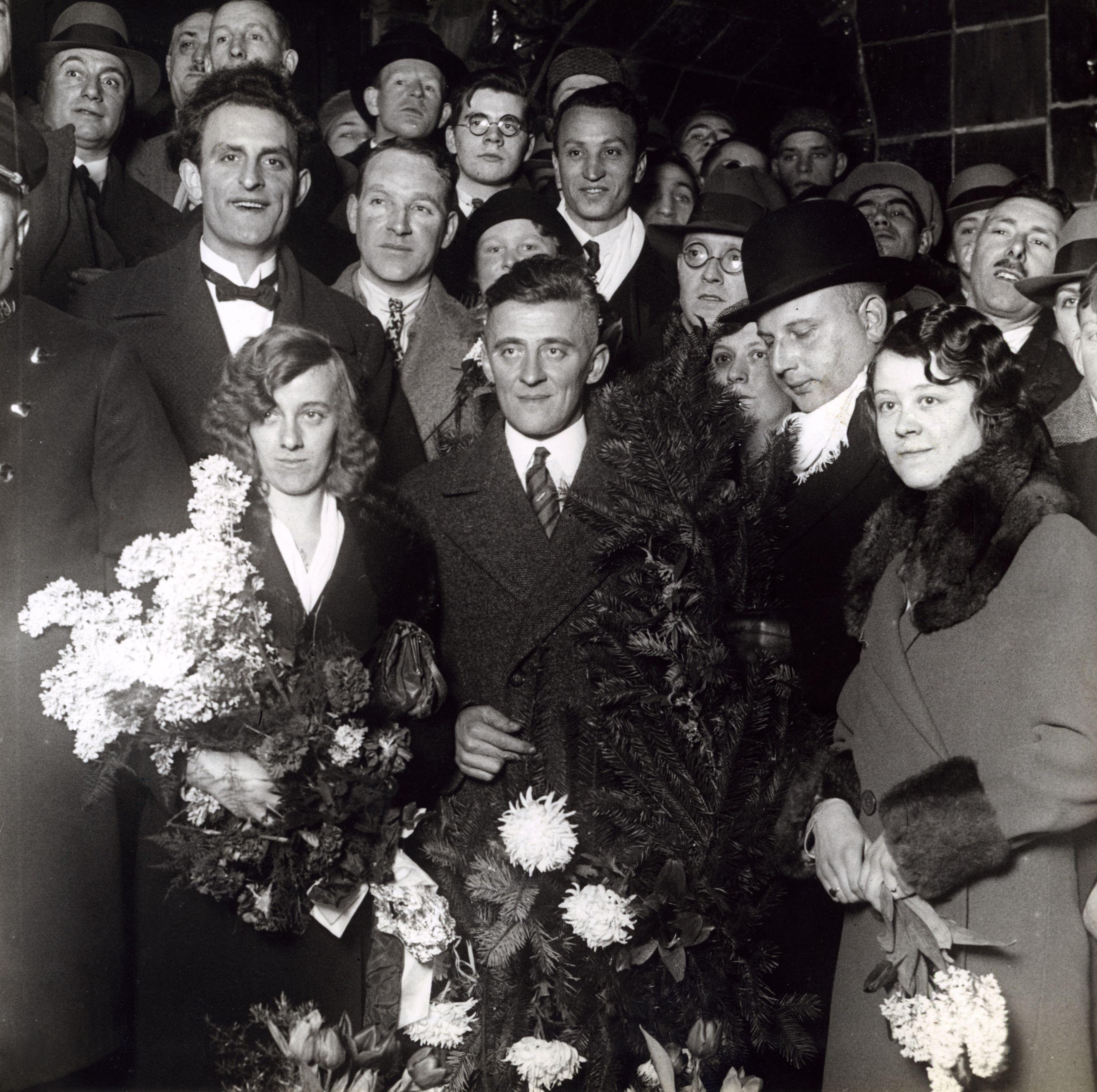 Honouring of racing cyclist Cor Blekemolen (1894-1972) as Dutch Stayer's Champion, 1932.